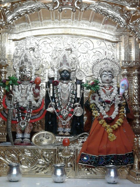 Madhya Khand, Shri Swaminarayan Mandir, Silampura, Burhanpur - 450331